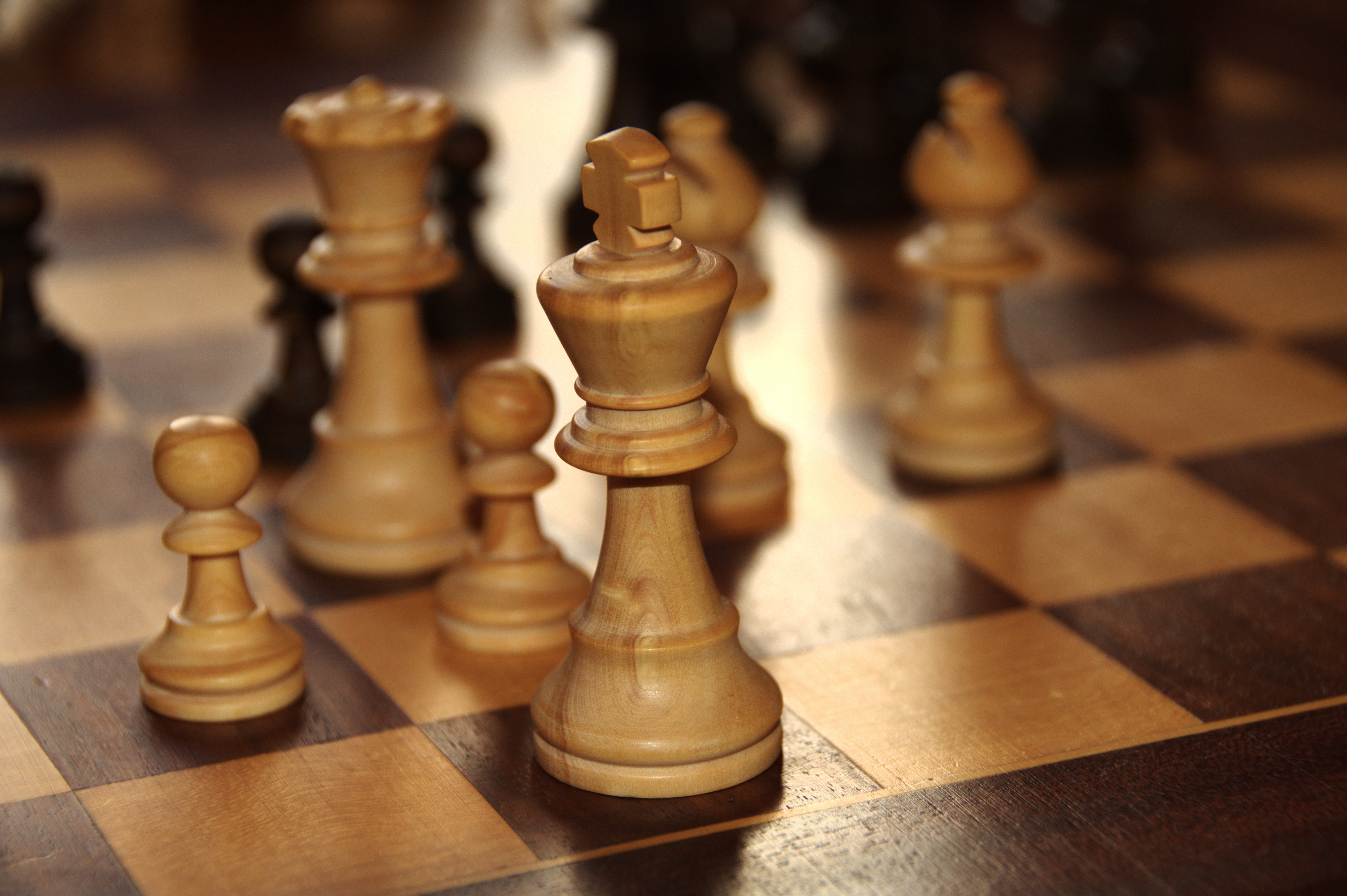 close up of a white king on a chess board